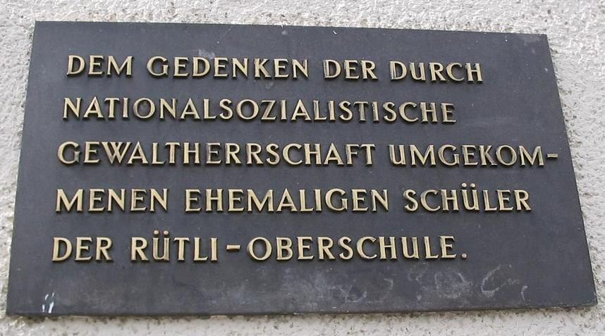 Rütli-School (Hauptschule), Berlin-Neukölln. This memorial plaque is to commemorate the dead alumni of Nazism.